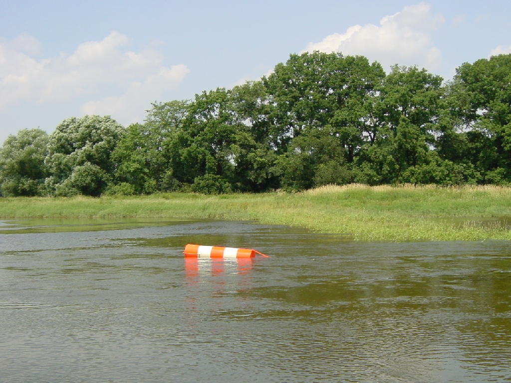 Buoy, sort of nautical equipment own work author: ProfessorX year: 2006